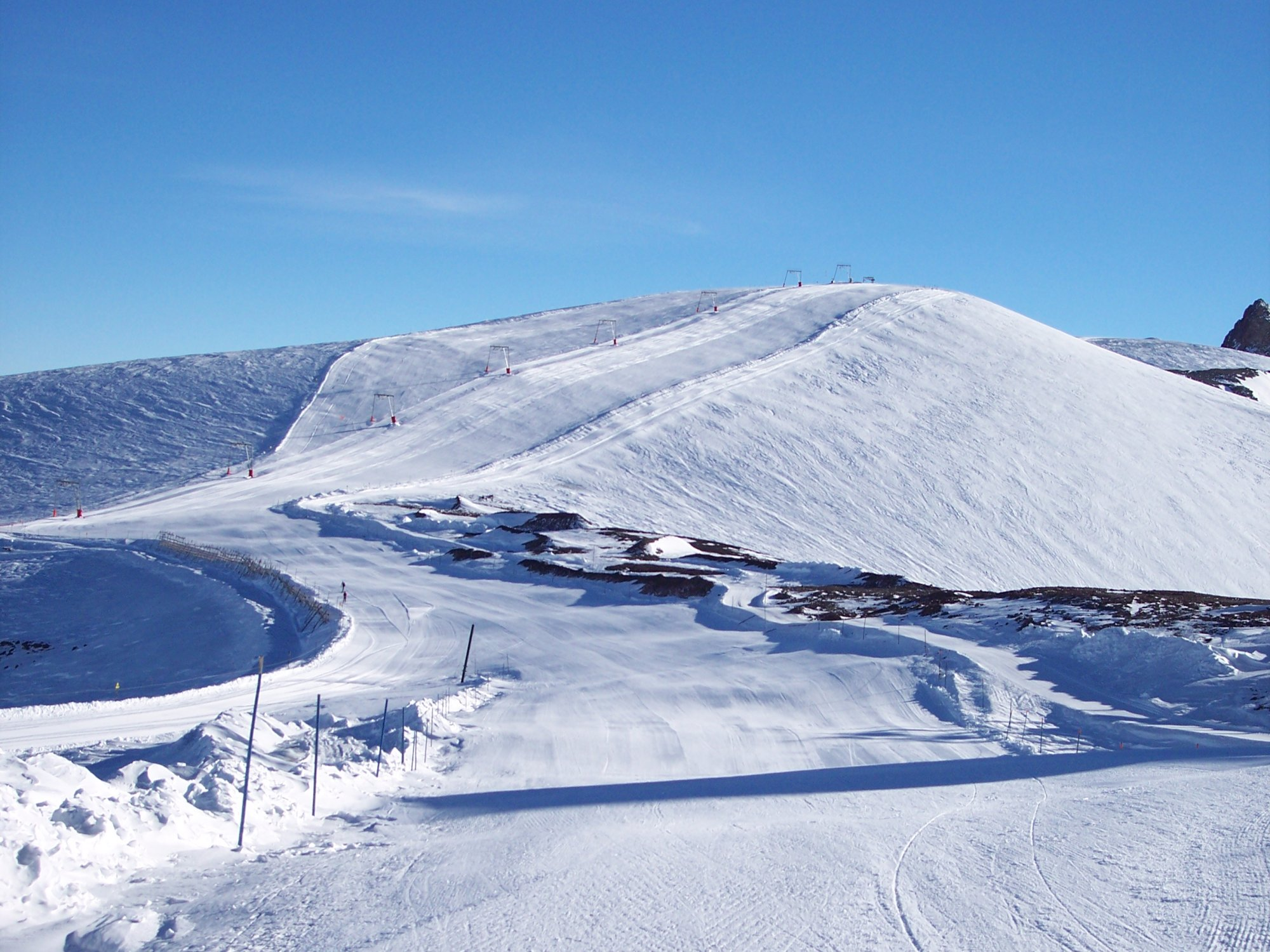 The Dôme de la Lauze and Girose Glacier seen from the Mont-de-Lans Glacier (also named Mantel Glacier) at the Les Deux Alpes ski resort, in France.